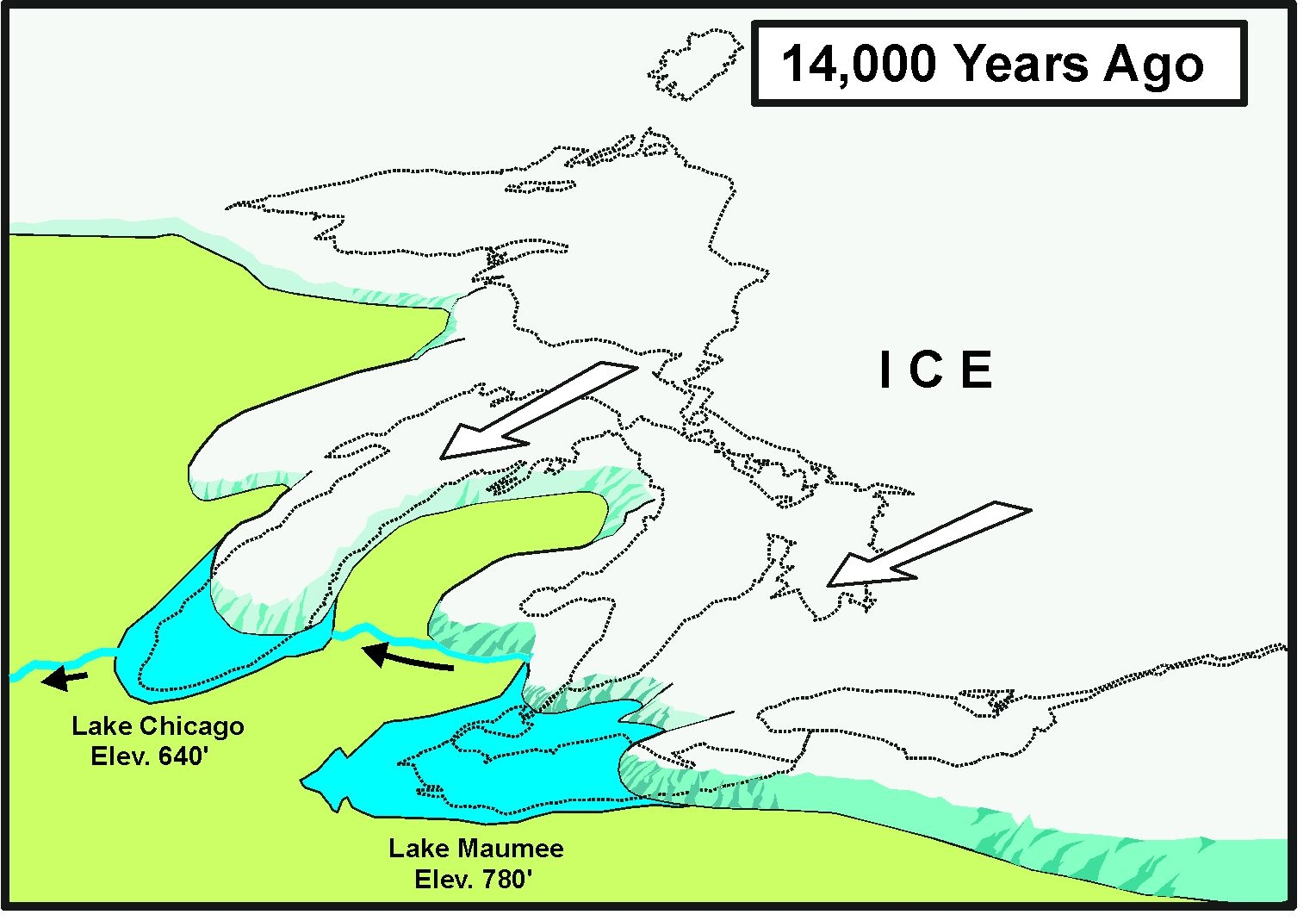 Depiction of the Continental Glaciers filling the Great Lakes Basins, 14,000 YBP